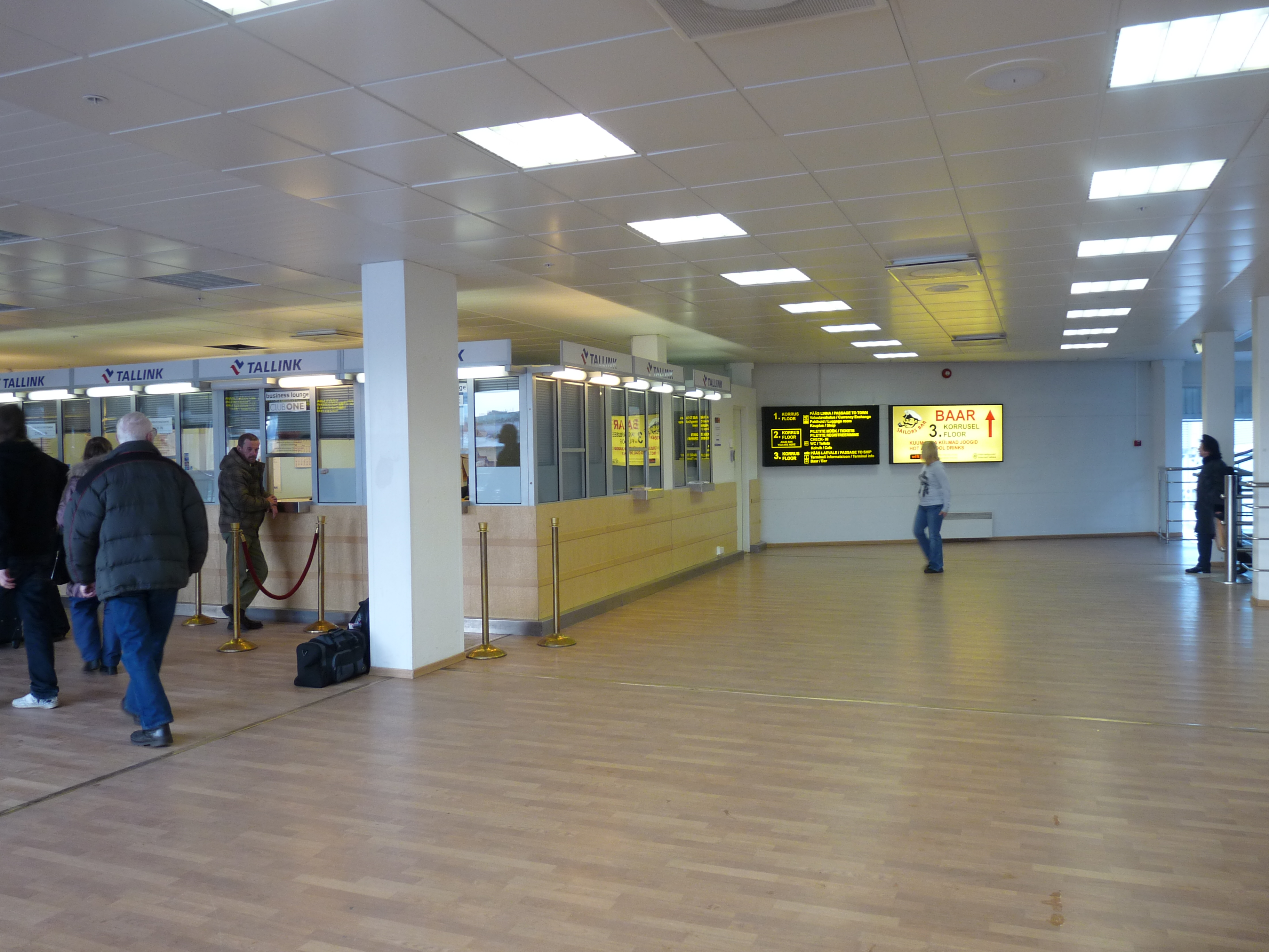 D Terminal interior